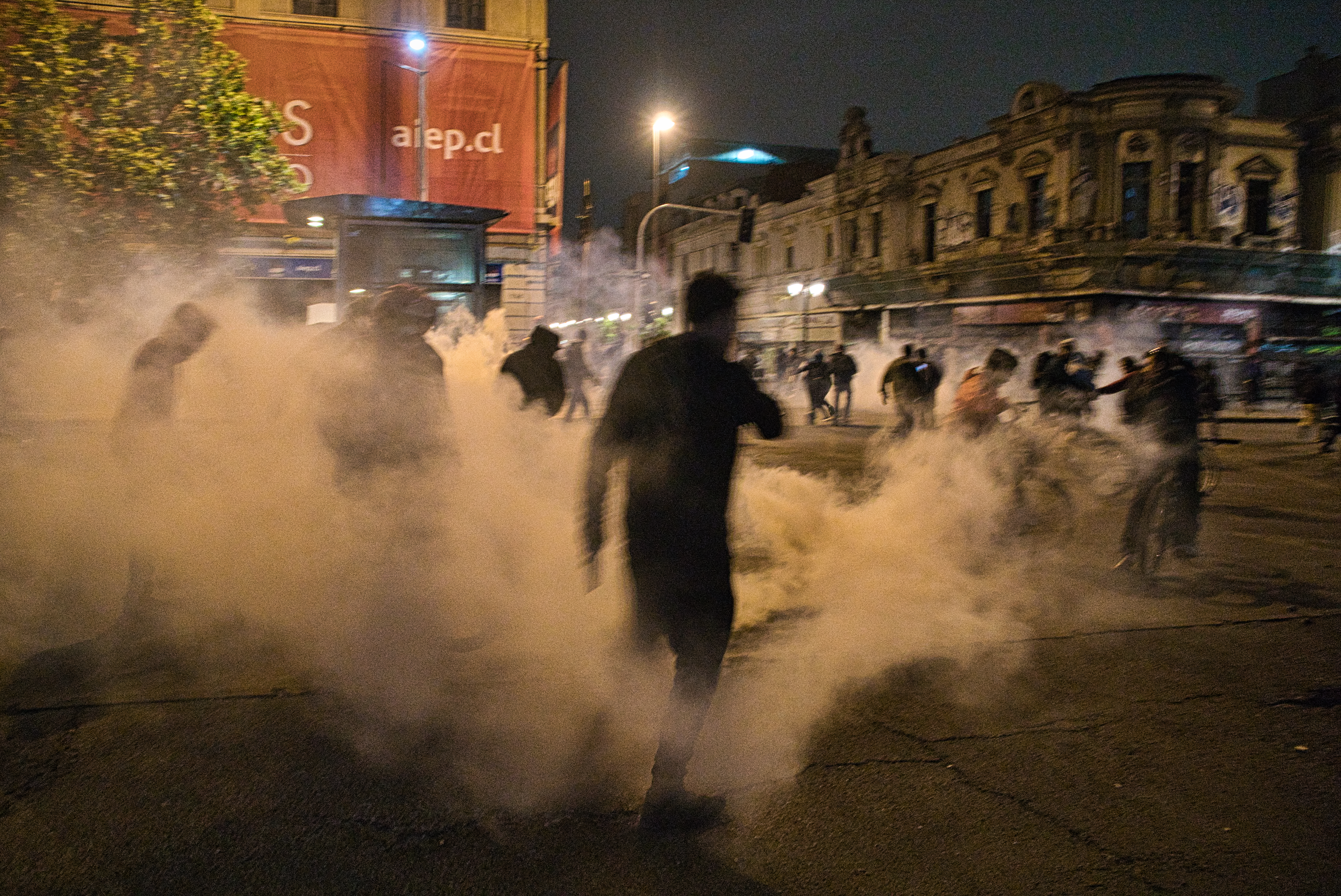 En la Alameda, las personas son dispersadas con gases lacrimógenos, justo al inicio del toque de queda